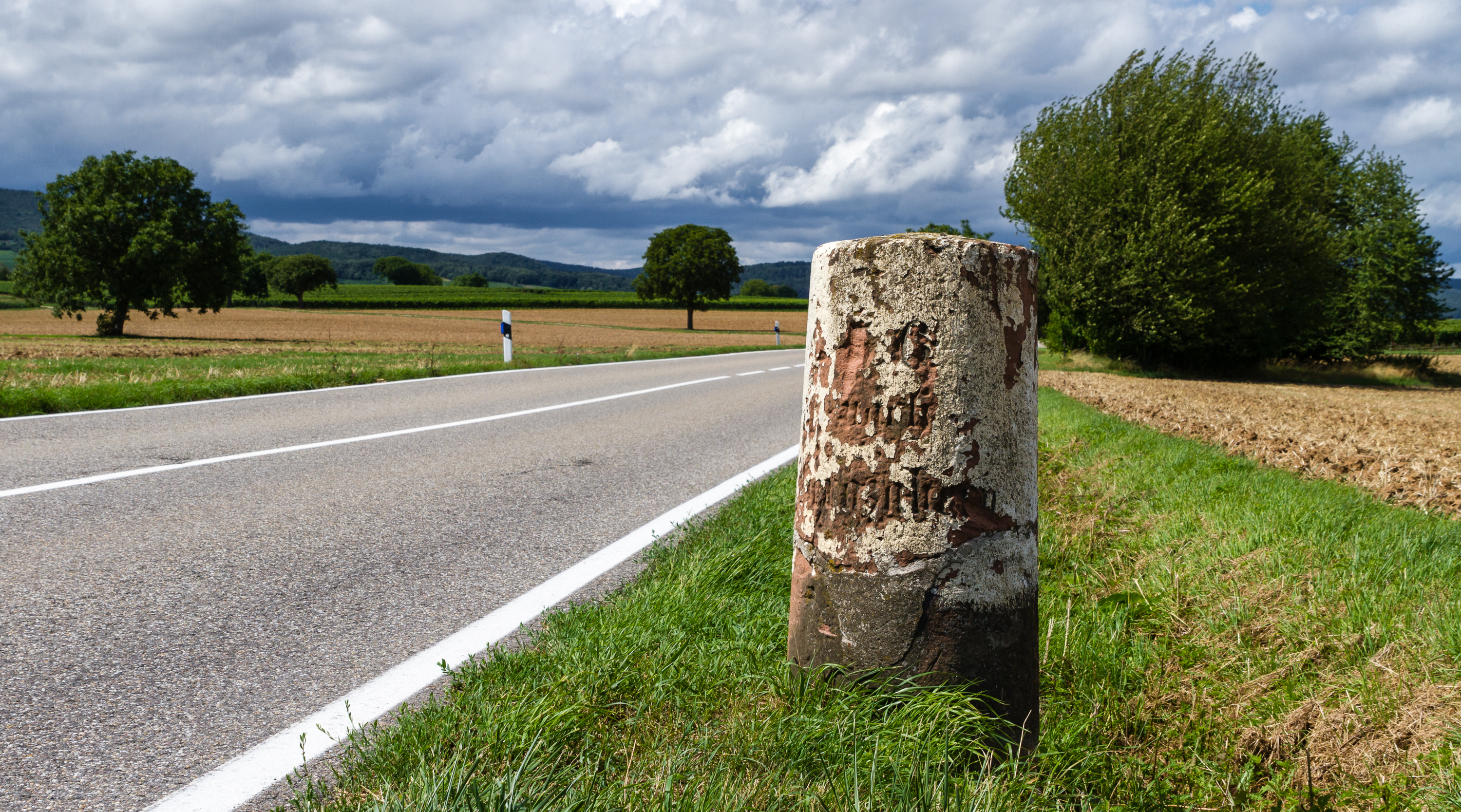 This is a photograph of an architectural monument.It is on the list of cultural monuments of Niederotterbach Designation: Milestone Construction time: second half of the 19th century Description: Sandstone cone Place: Municipality Niederotterbach, Collective municipality Bad Bergzabern, District Südliche Weinstraße, Rhineland-Palatinate, Germany Location: on the L 545 Parcel of land: Am Heiligen Rain